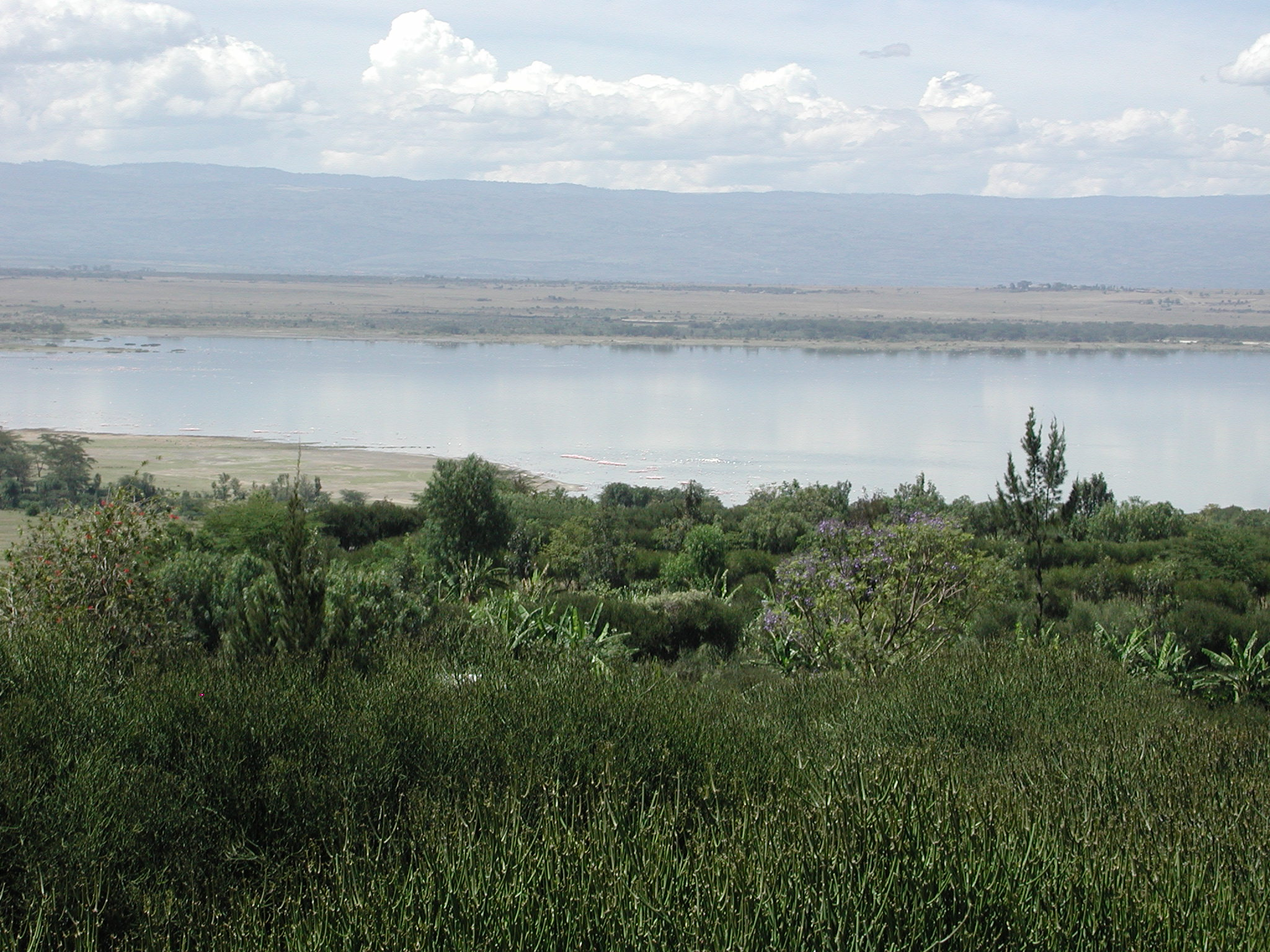 Lake Elementaita from the Nairobi-Nakuru highway